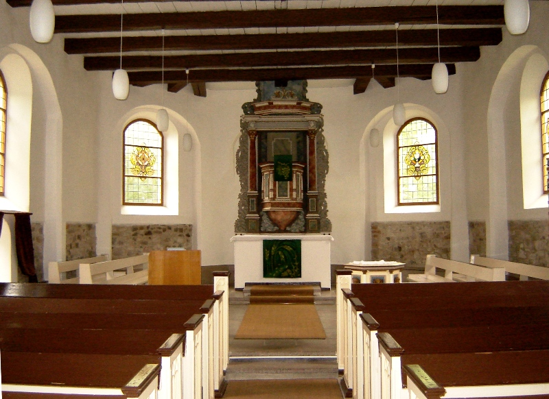 The interior of the St.-Briccius-Church in Magdeburg-Cracau